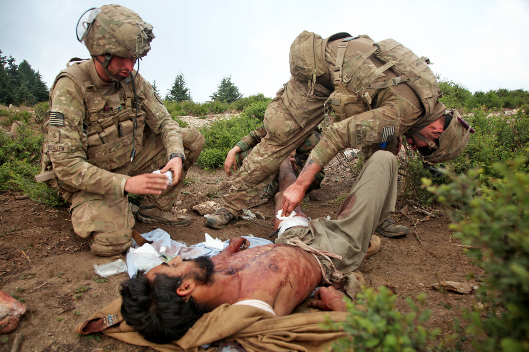 U.S. Army soldier Pfc. Brian Buckallen (left), and U.S. Army medic Pfc. Anthony Norris from D Company, 2nd Battalion, 35th Infantry Regiment, treat a wounded civilian after a fire fight during Operation Hammer Down in the Watapoor District of Kunar province, Afghanistan, June 28. 2-35th Infantry Division deployed through out Afghanistan in support of Operation Enduring Freedom. (U.S. Army photo by Spc. Tia Sokimson) Joint Combat Camera Afghanistan Date Taken:06.28.2011 Location:FORWARD OPERATING BASE FENTY, AF Related Photos